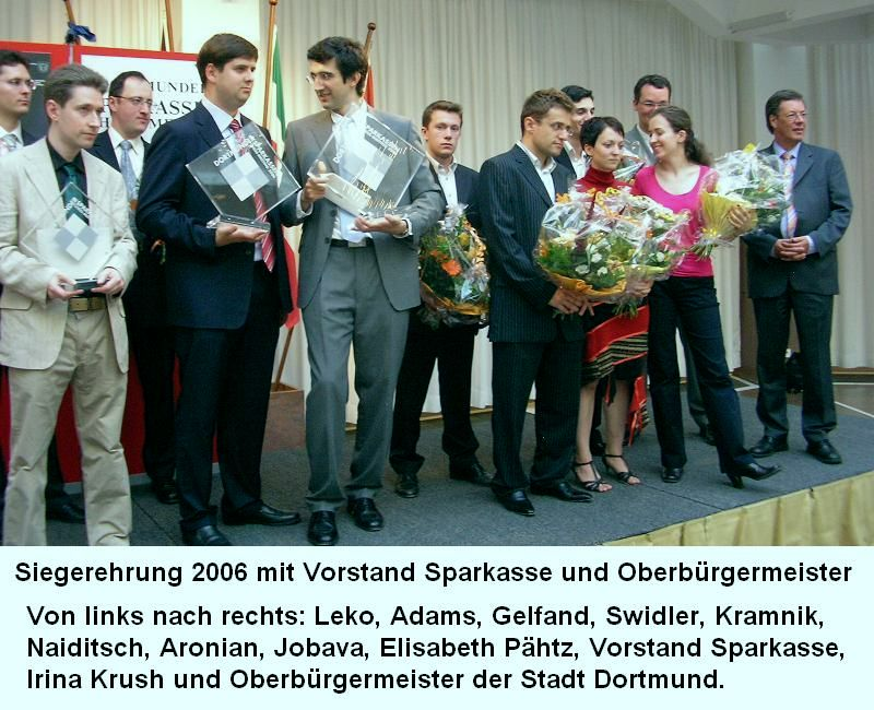 Victory ceremony of the Chess Days 2006 at Dortmund: Leko, Adams, Gelfand, Swidler, Kramnik, Naiditsch, Aronian, Jobava, Pähtz, savings bank, Krush, chief burgomaster.